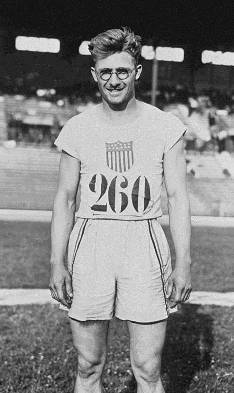 Harold Osborn of the USA between events during the 1924 Olympic Games in Paris. Osborn won the gold medal in the High Jump with a jump of 1.98 metres. He also won the decathlon with a world record 7,710.775 points. Osborn is the only track and field athlete to win an individual Olympic event in addition to winning the decathlon.